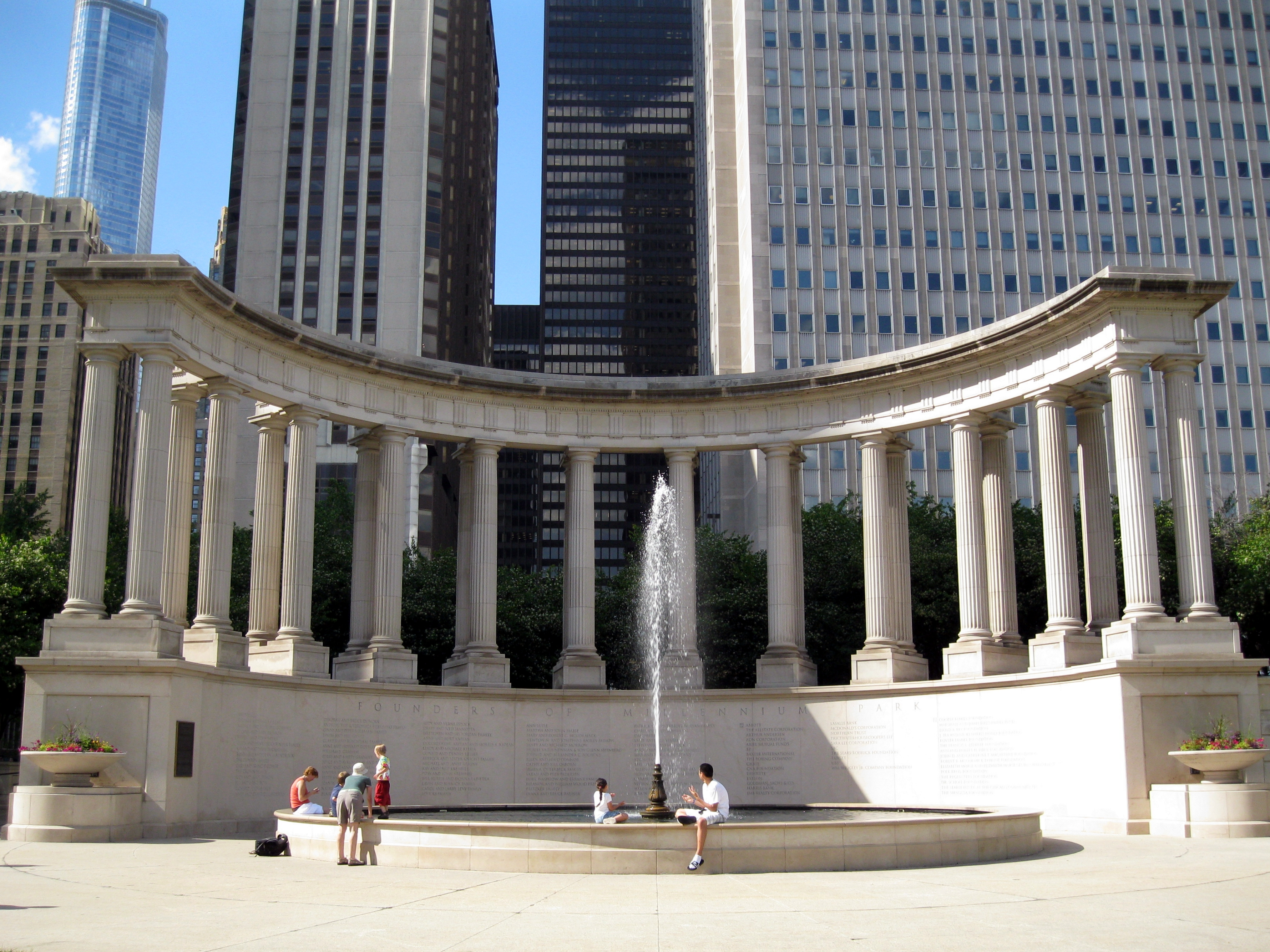 The Millennium Monument in Wrigley Square in Millennium Park, Chicago, Illinois, USA